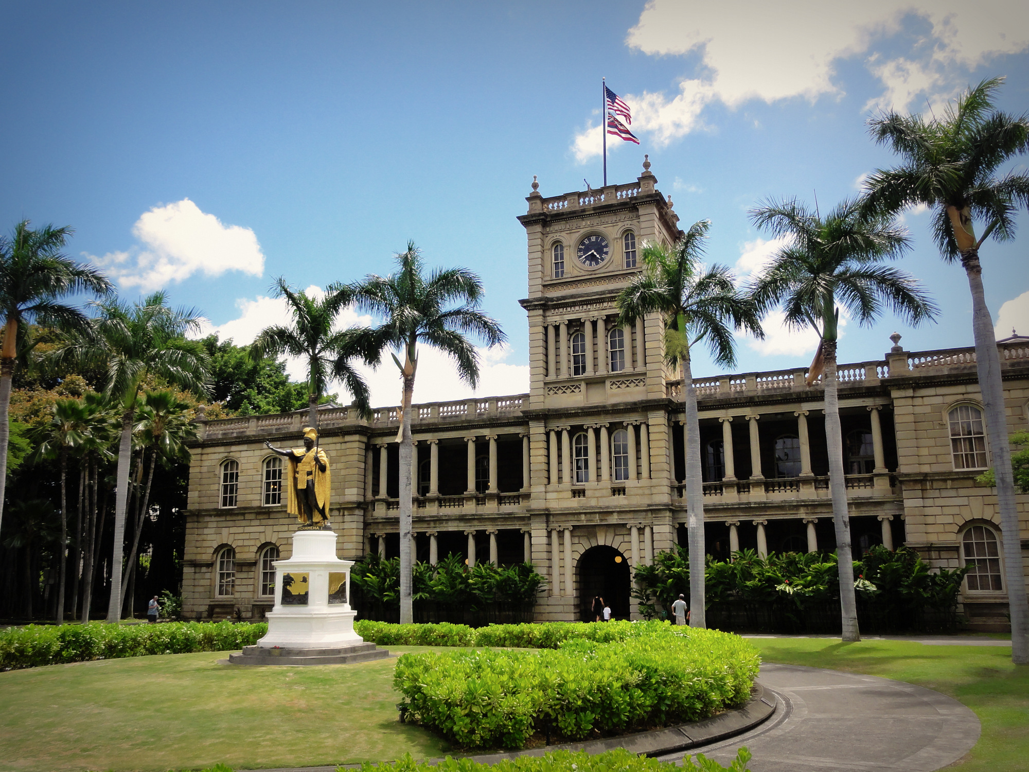 Aliʻiōlani Hale, the building where the Hawaiʻi State Supreme Court meets, in Downtown Honolulu